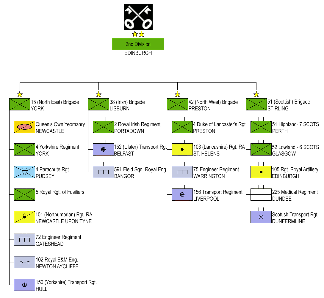 United Kingdom Army 2nd Division Structure